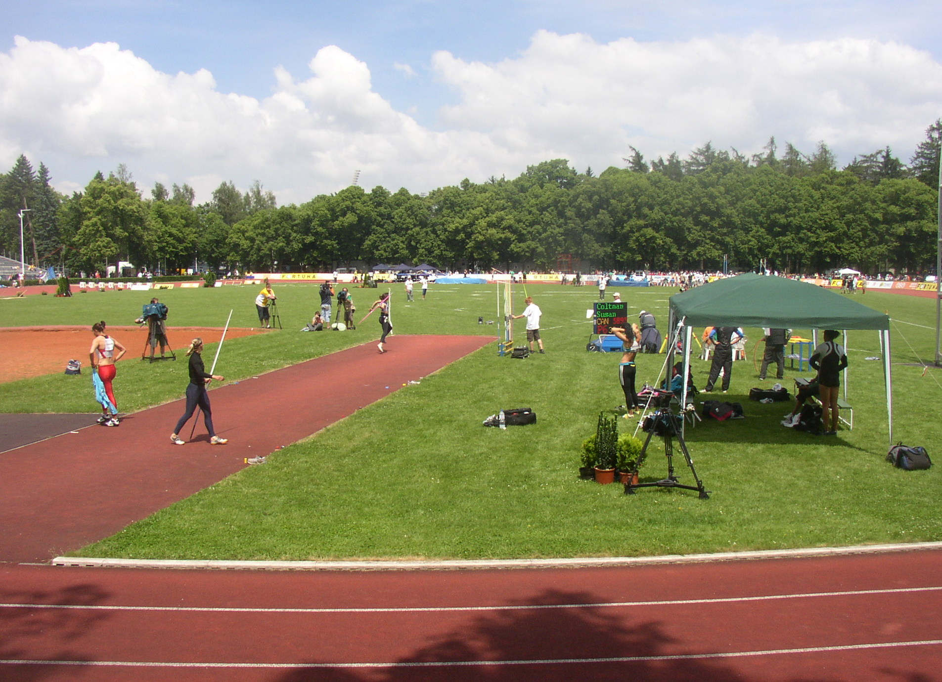 Javelin throw in women's heptathlon at 4th edition of the TNT - Fortuna Meeting (IAAF World Combined Events Challenge Meeting, Sletiště Stadium, Kladno, Czech Republic, 16 June 2010, 13:25).